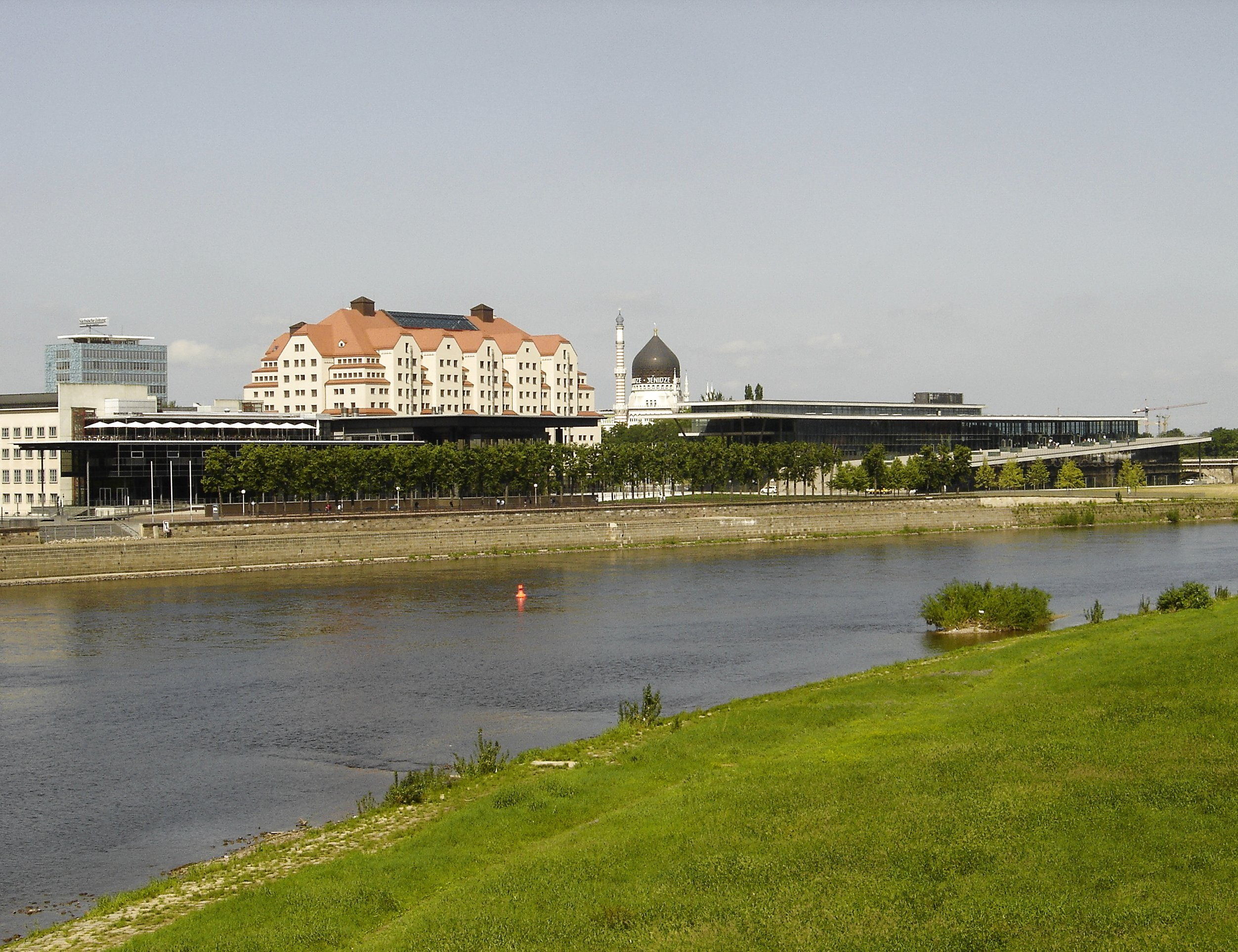 "new terrace" in Dresden, Germany: Landtag (local parliament), Erlweinspeicher (ware house), (Yenidze), Kongresszentrum (congress center)